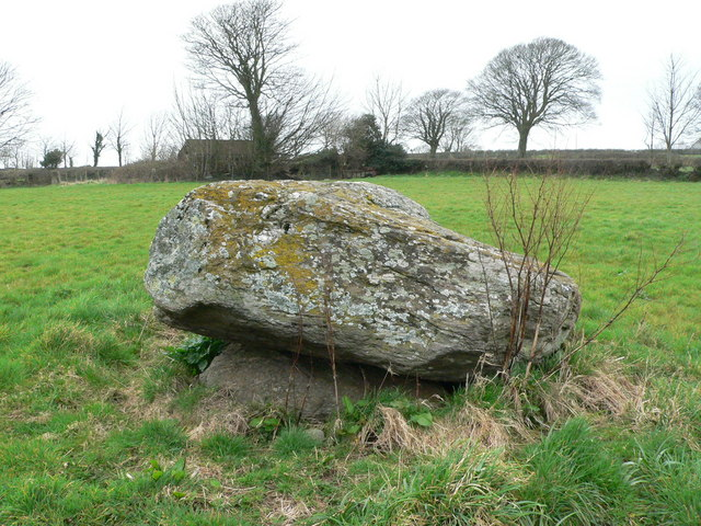 The Cromlech, Brynsiencyn, Isle of Anglesey. A view of the ancient cromlech.